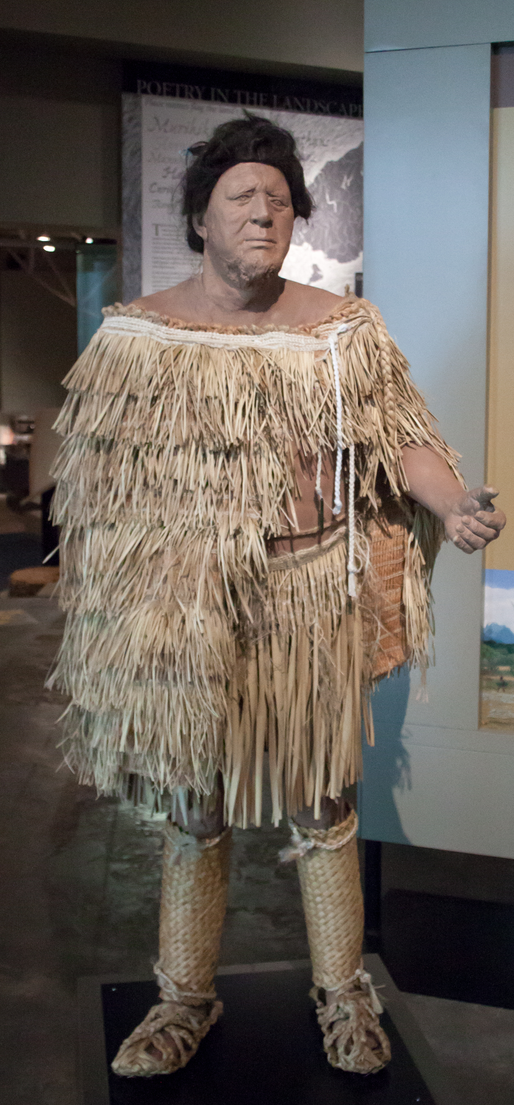 Maori clothing reconstruction